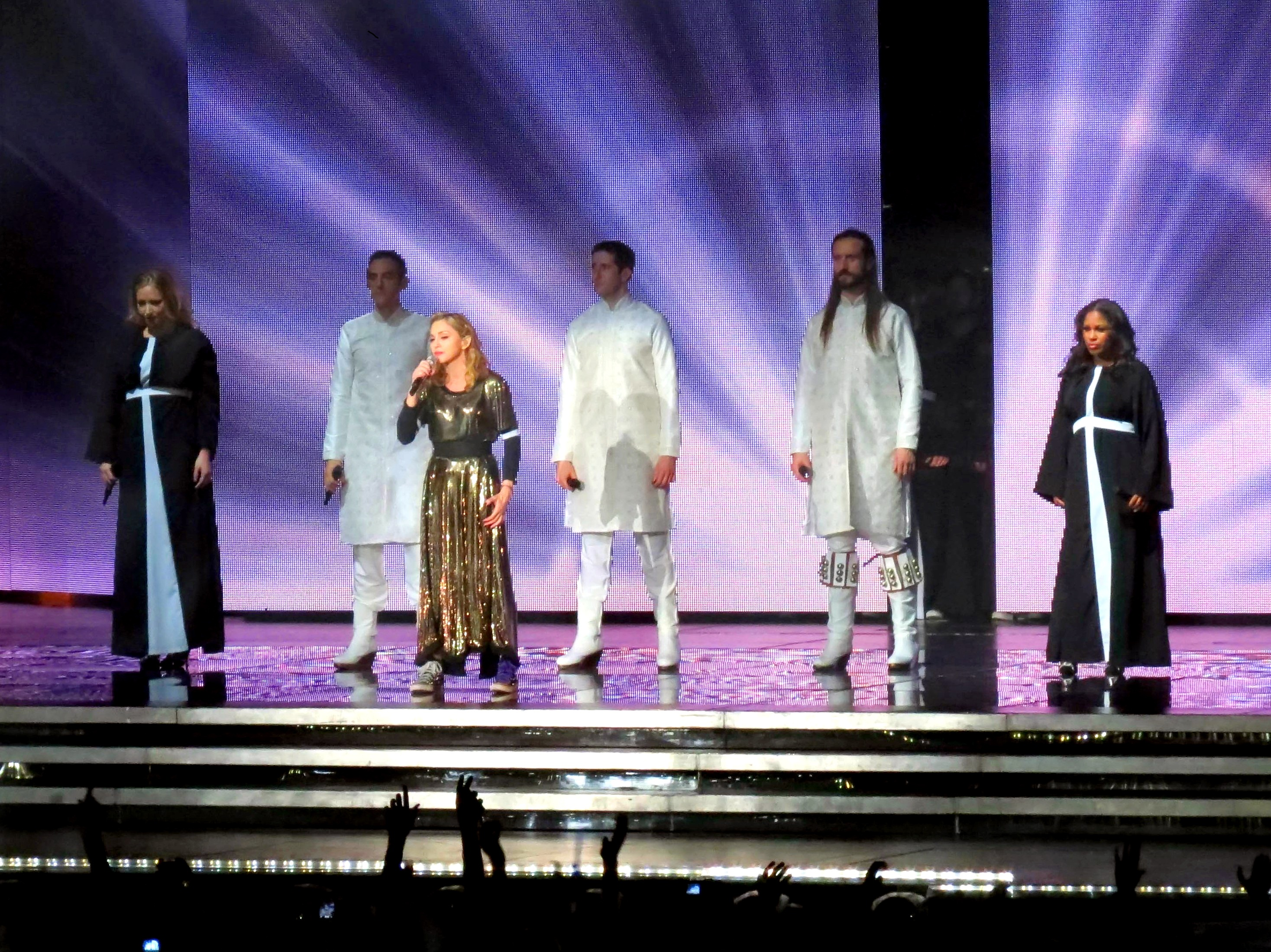 Madonna flanked by her back-up singers and the Kalakan trio, perform "Like a Prayer" on the MDNA Tour, 2012